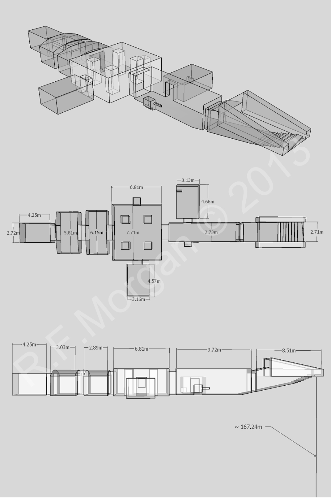 Isometric, plan and elevation images taken from a 3d model